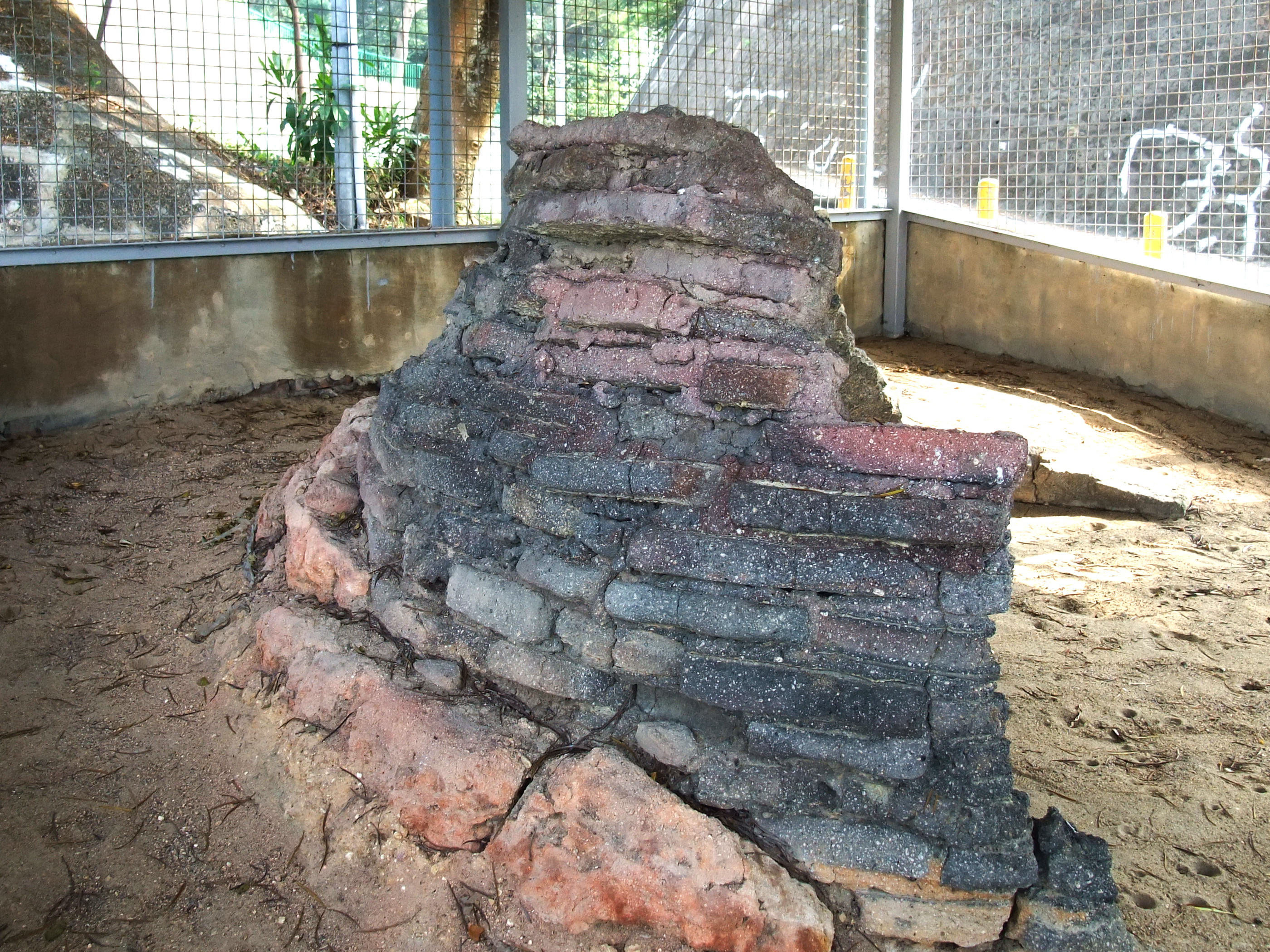 Fu Tei Wan Lime Kiln of Chek Lap Kok (Relocated to Tung Chung Battery, Tung Chung, Lantau Island, Hong Kong)